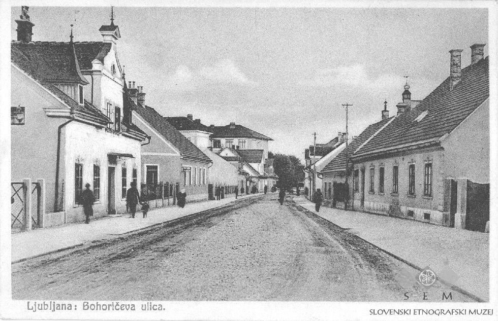 Postcard of Ljubljana, Bohorič Street